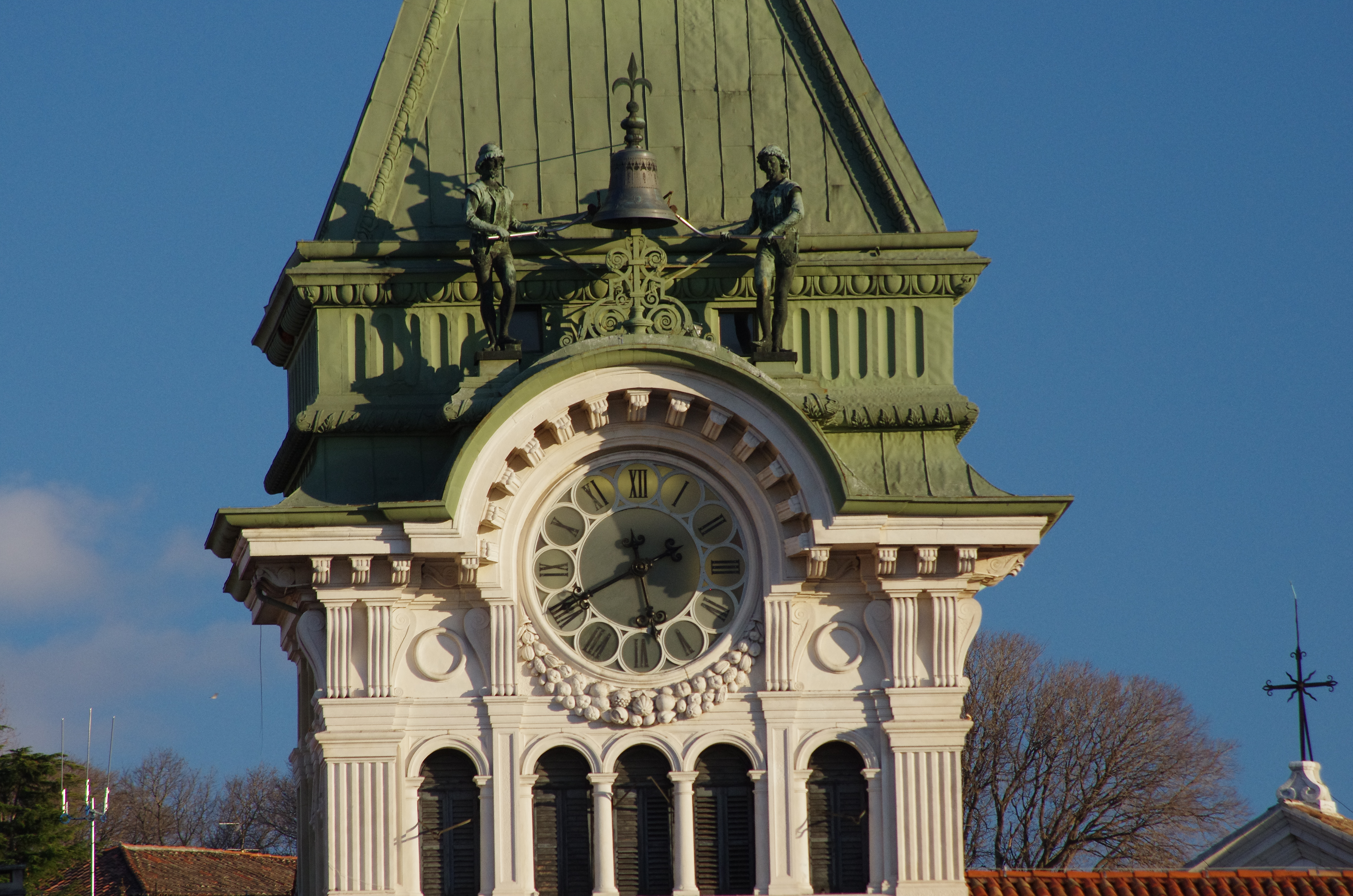 03 2019 photo Paolo Villa - F0197989 - Trieste - Municipio - Orologio